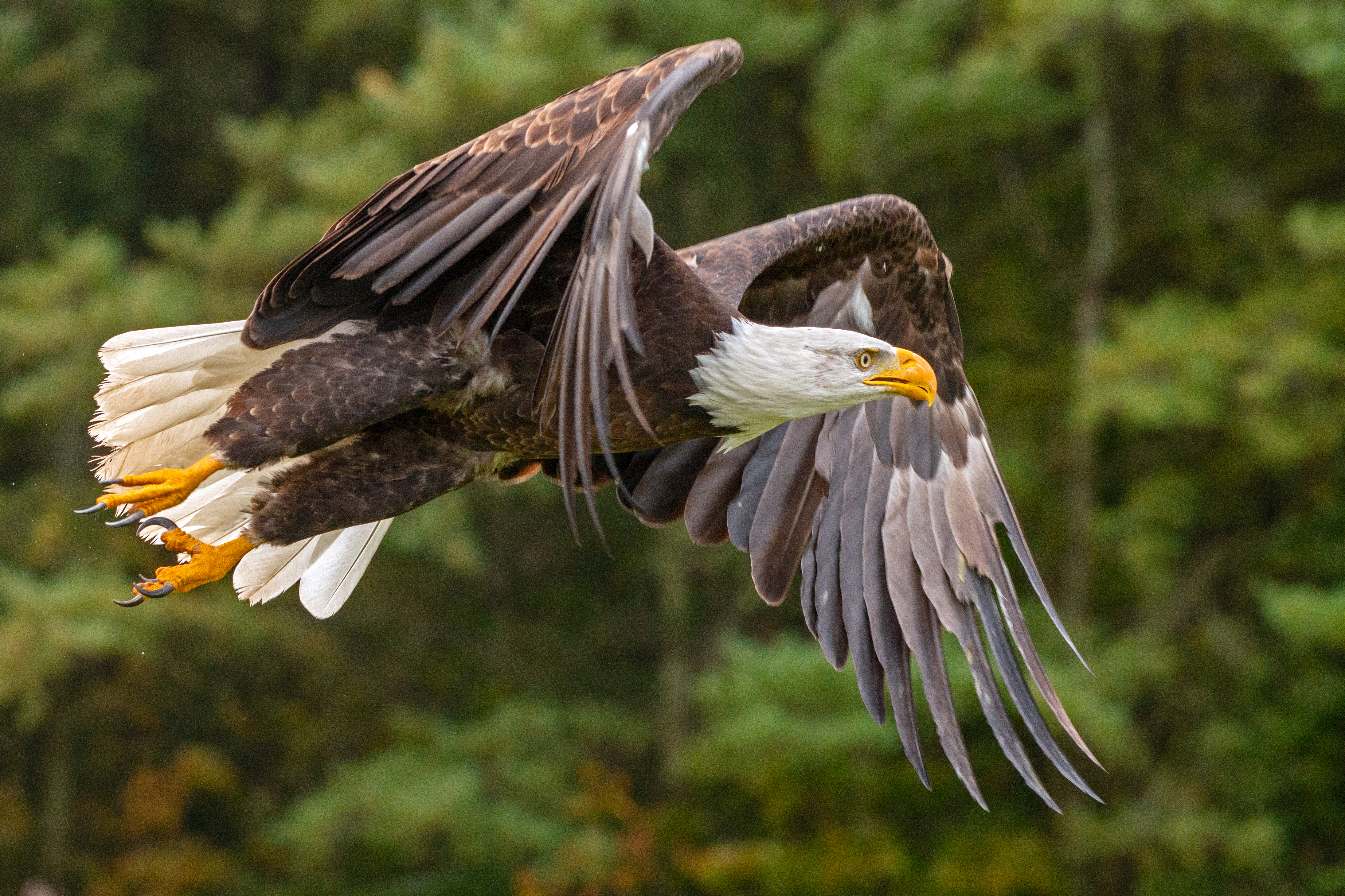 A bald eagle flying through a boreal forest in Ontario, Canada